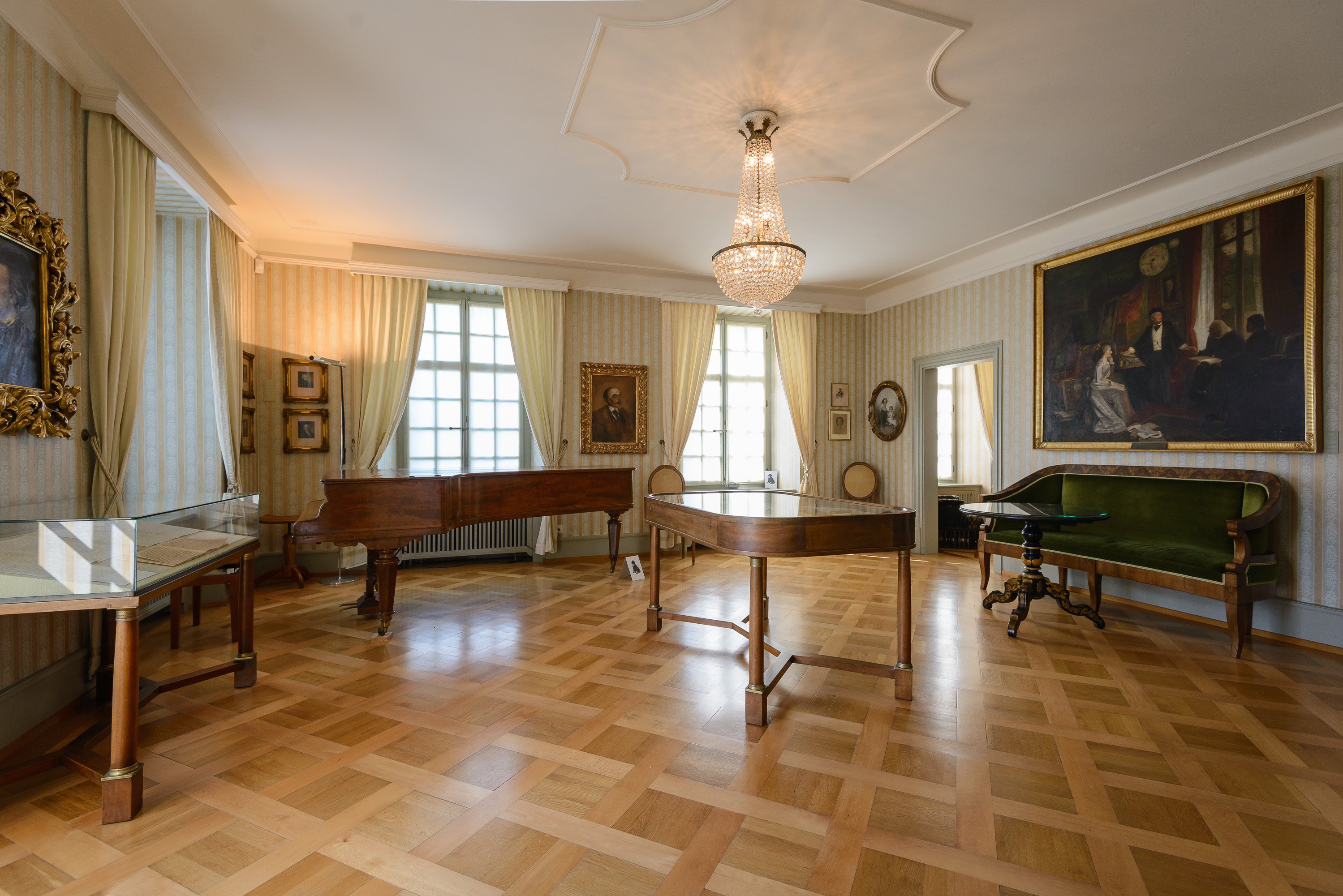 Richard-Wagner-Museum im Landsitz Tribschen